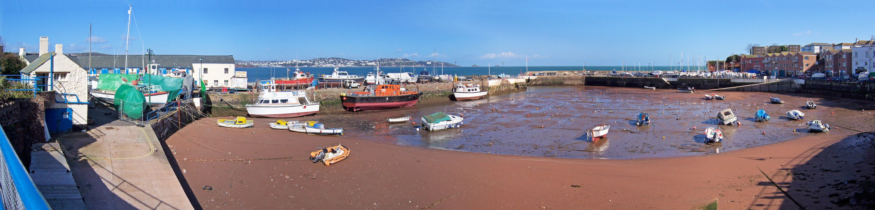 Panoramic photo of Paignton harbour in Devon.